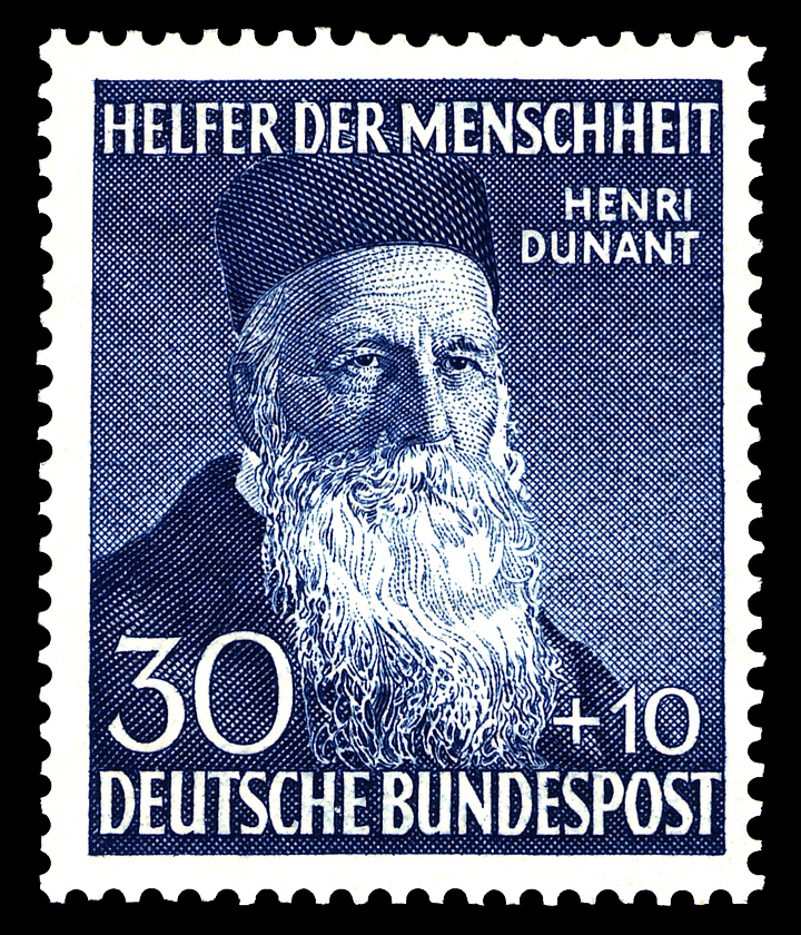 Social welfare stamp series 1952, Henri Dunant (1828-1910) Graphics by Schnell Ausgabepreis: 30+10 Pfennig First Day of Issue / Erstausgabetag: 1. Oktober 1952 Michel-Katalog-Nr: 159